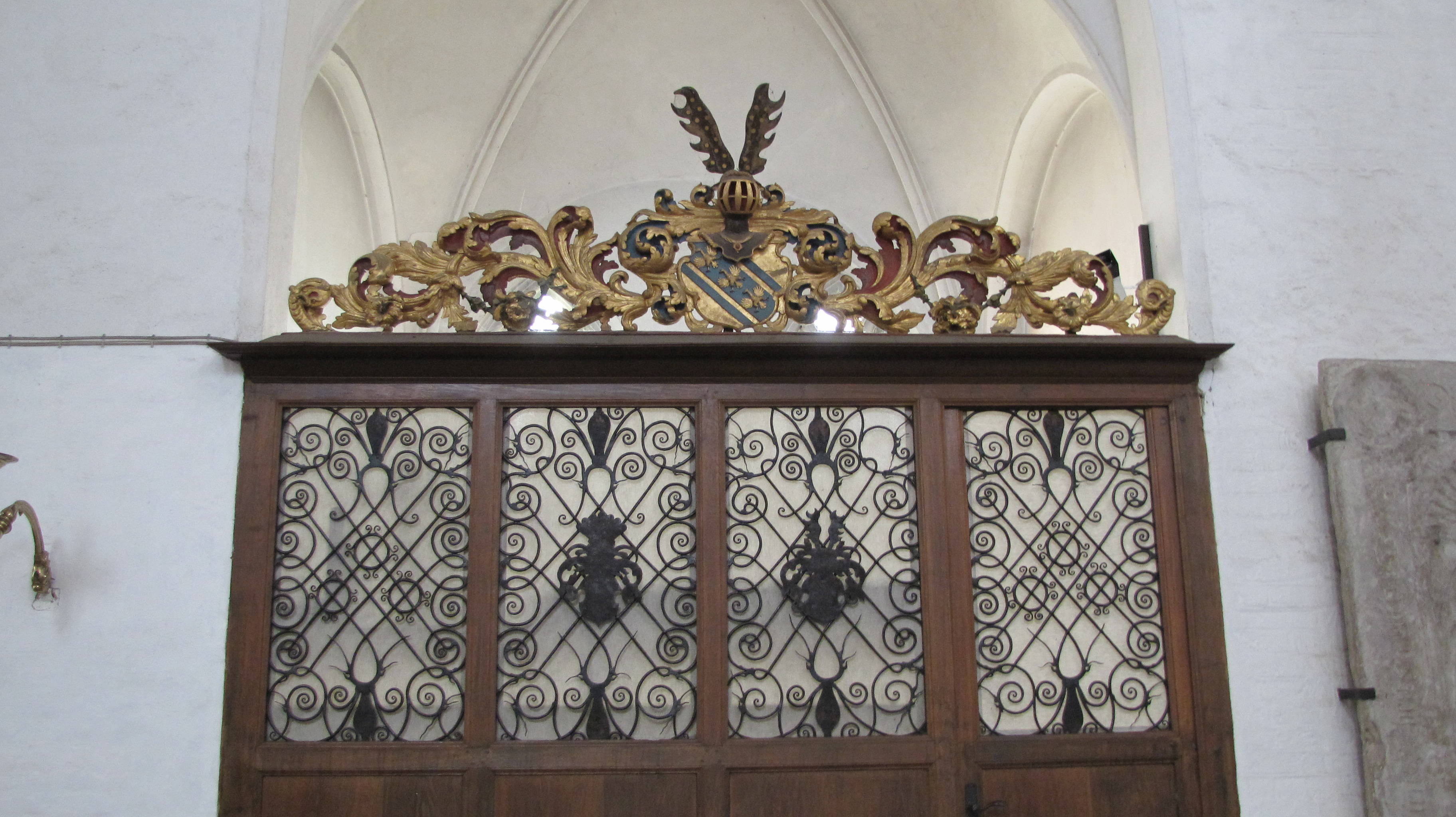 von Warendorp Chapel in Lübeck Cathedral